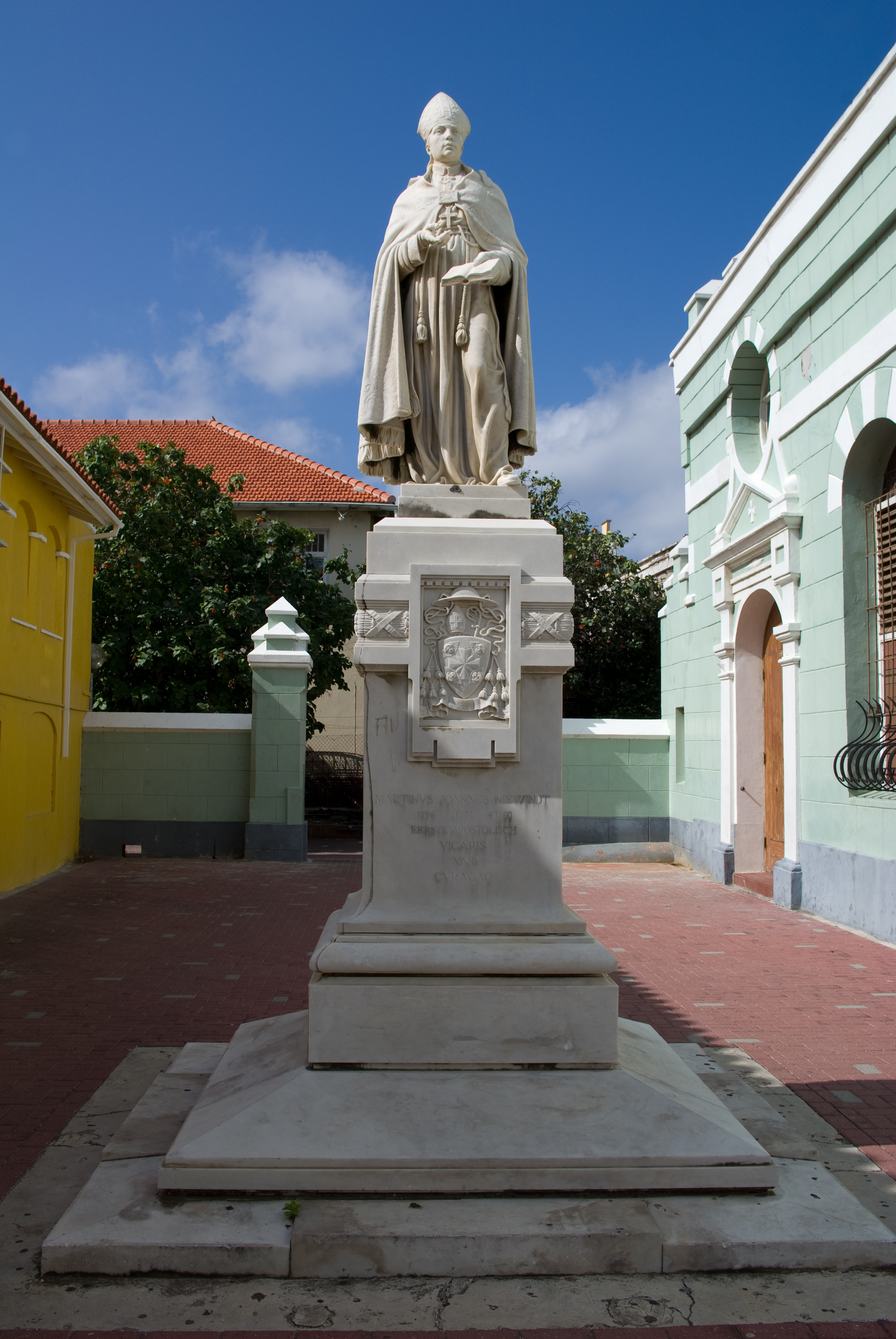 Statue of Bishop Martinus Joannes Niewindt, First Apostolic Vicar of Curaçao